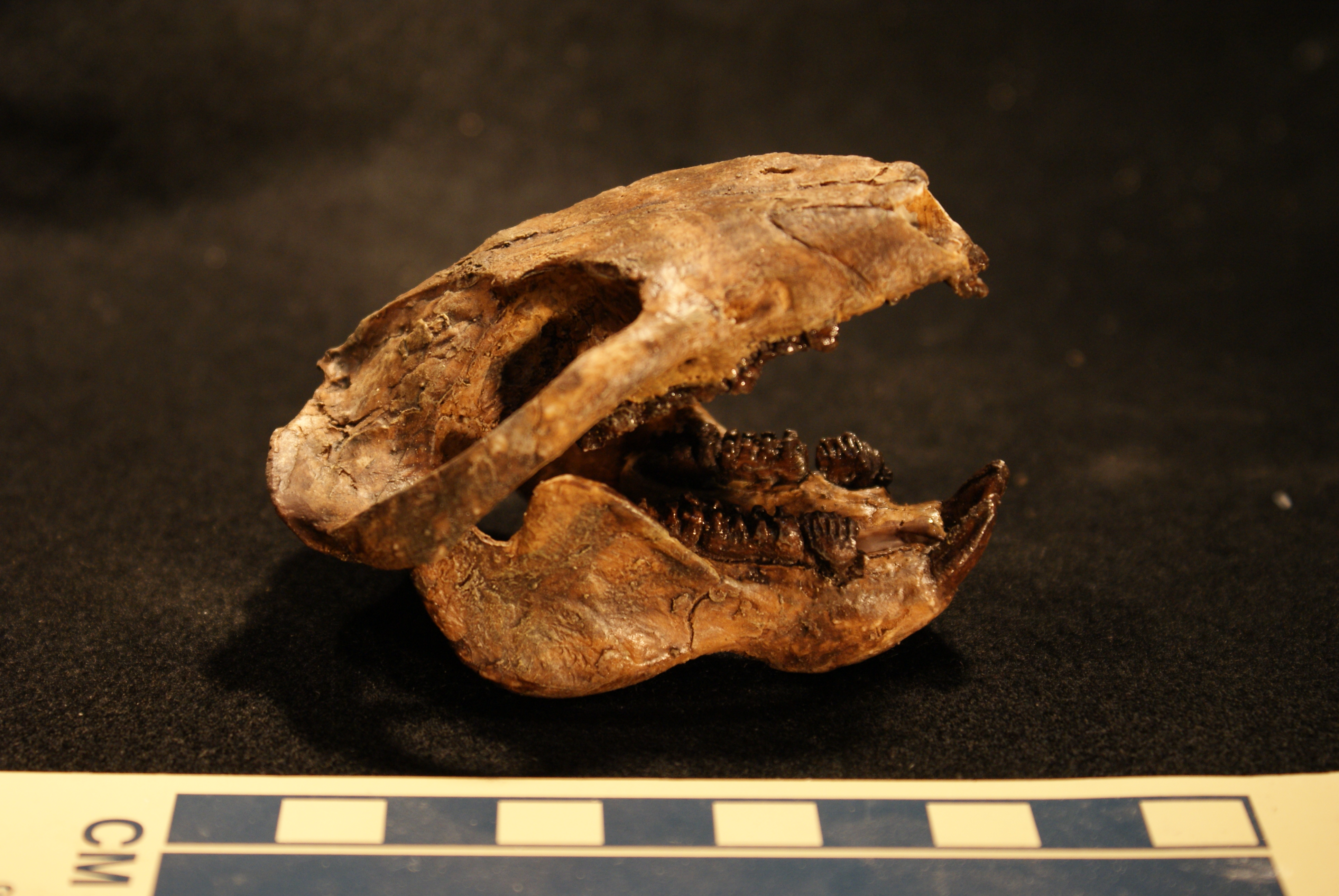 Meniscoessus skull in the Rocky Mountain Dinosaur Resource Center, Woodland Park, Colorado